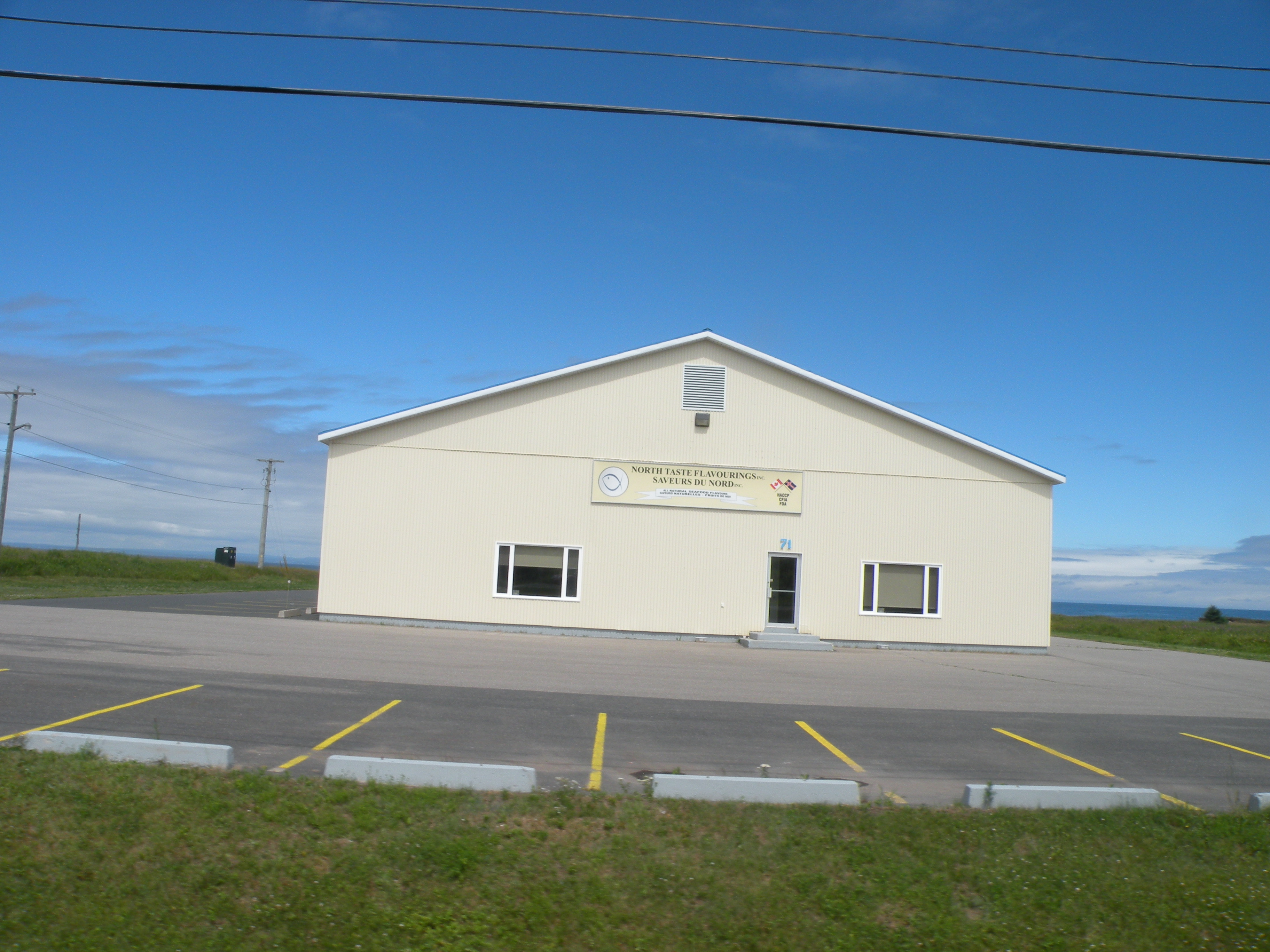 The Saveurs du Nord Inc. factory in Anse-Bleue, New Brunswick, Canada.